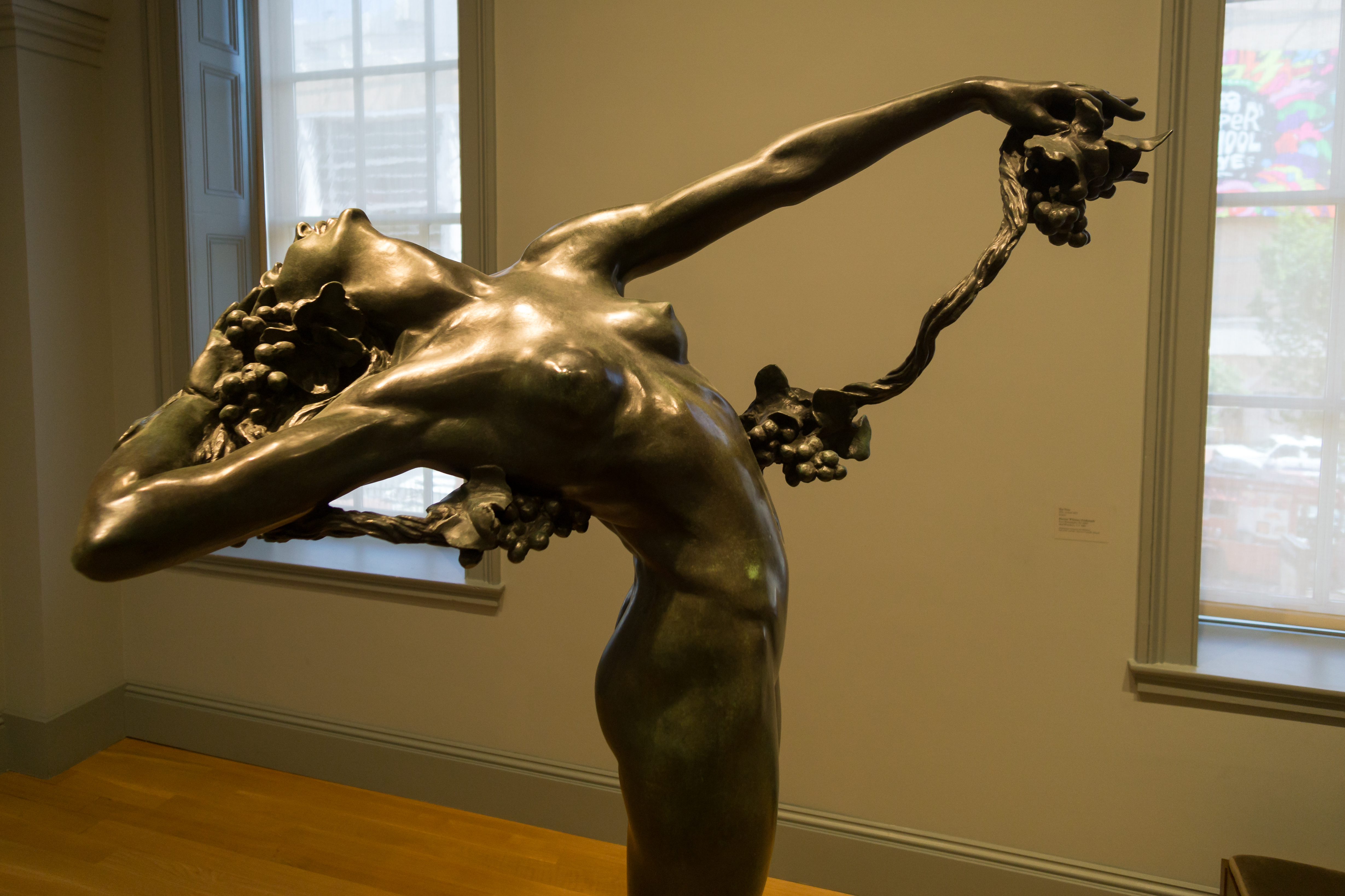 The Vine